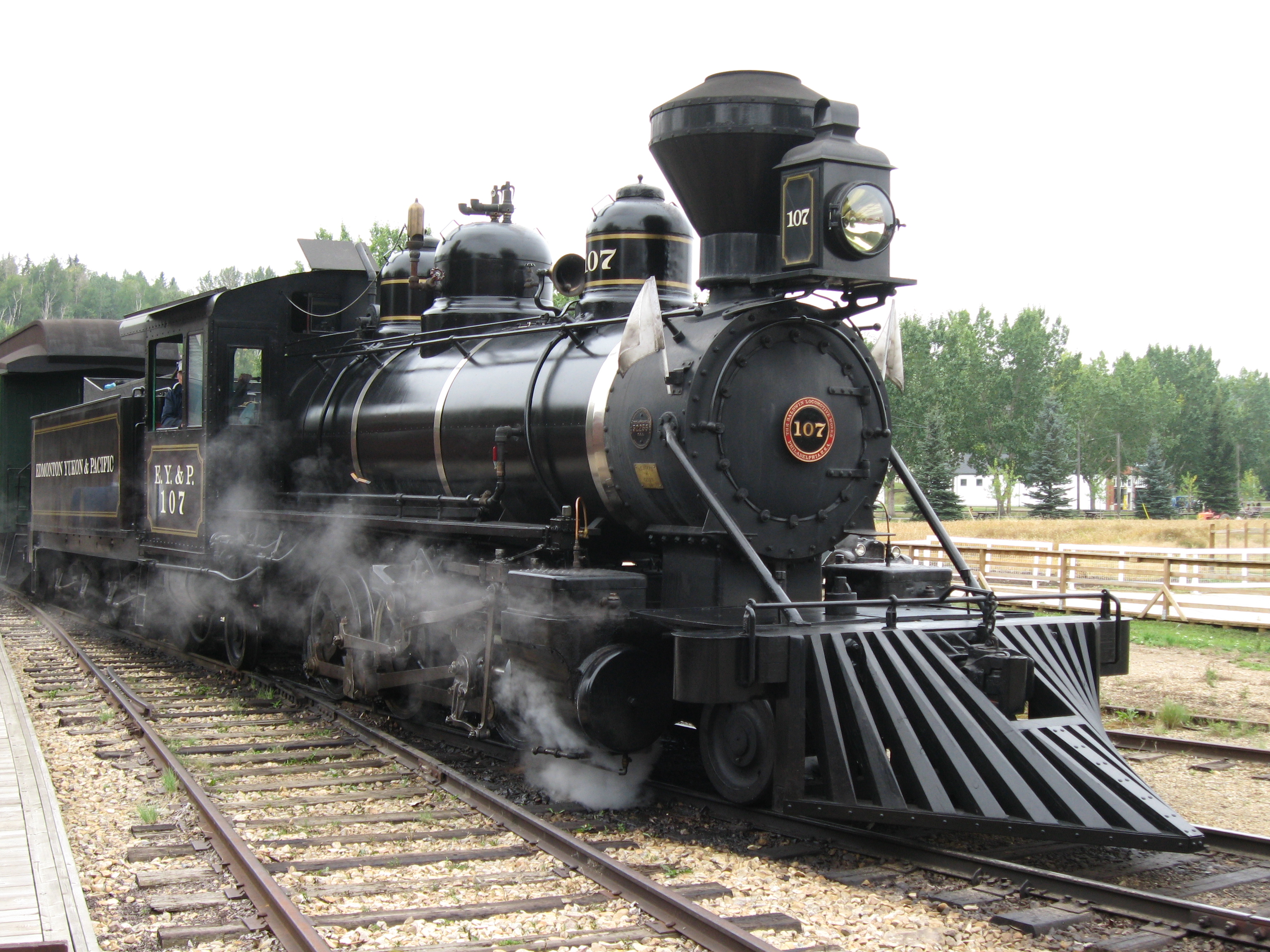 Edmonton, Yukon & Pacific Route train